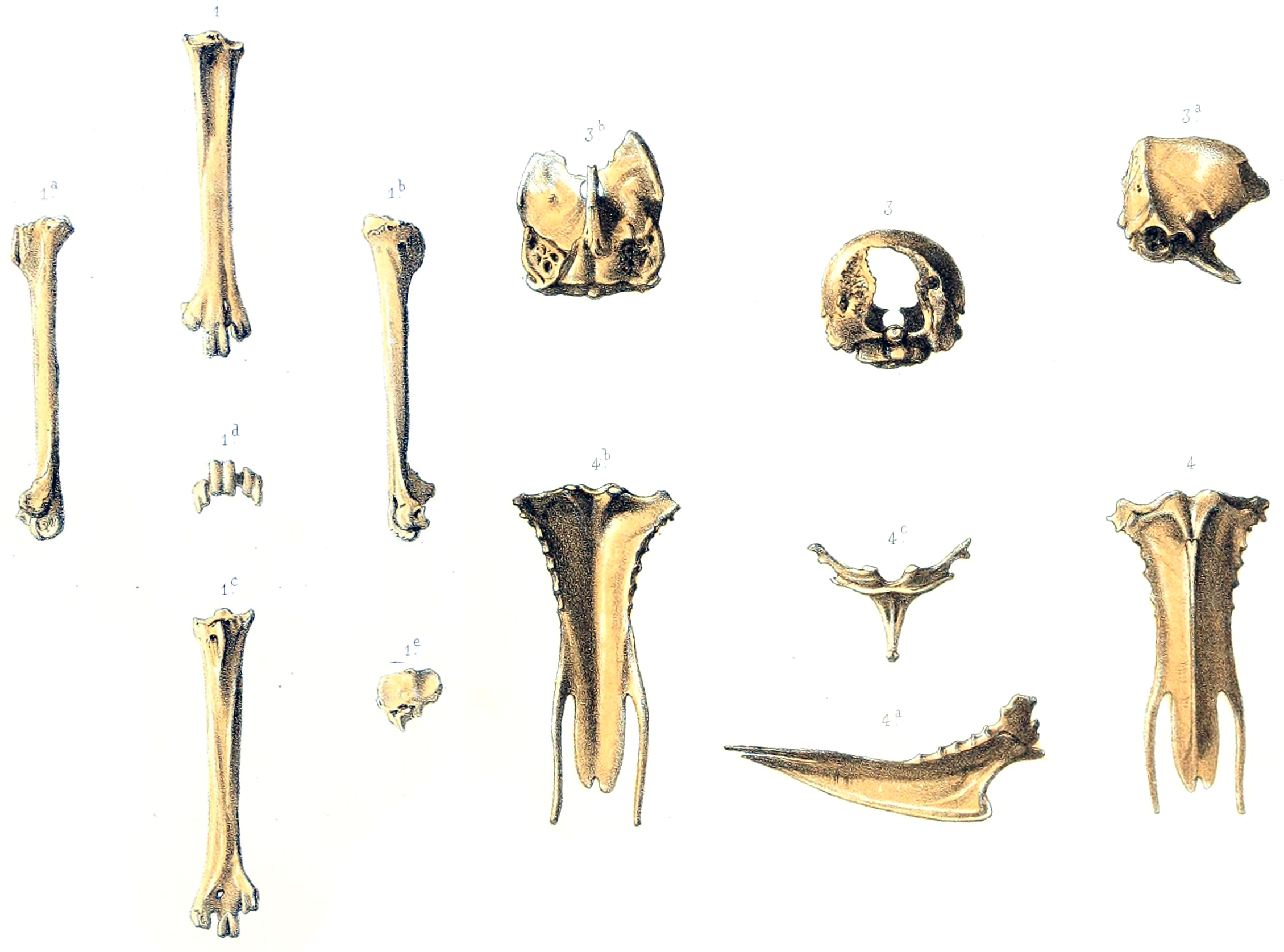 Tarsometatarsus (1 a.–e.[1]), skull and sternum (3 a.-b. and 4a.-c.[2]) of Erythromachus. From Recherches sur la faune ornithologique éteinte des iles Mascareignes et de Madagascar By Alphonse Milne-Edwards. Published by G. Masson in Paris, France, 1866-1875.